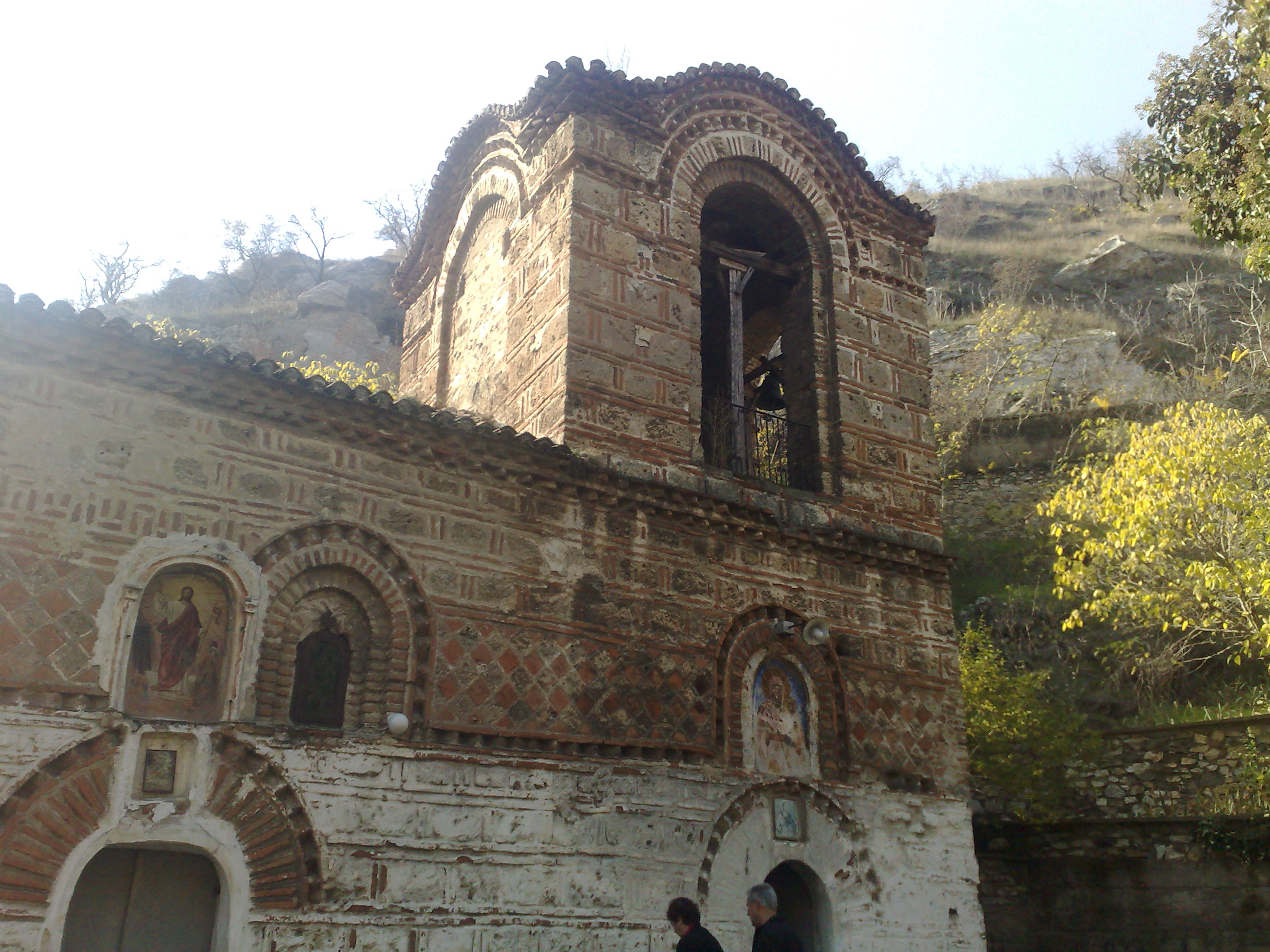 Monastery of Saint Demetrius in Veles, Macedonia